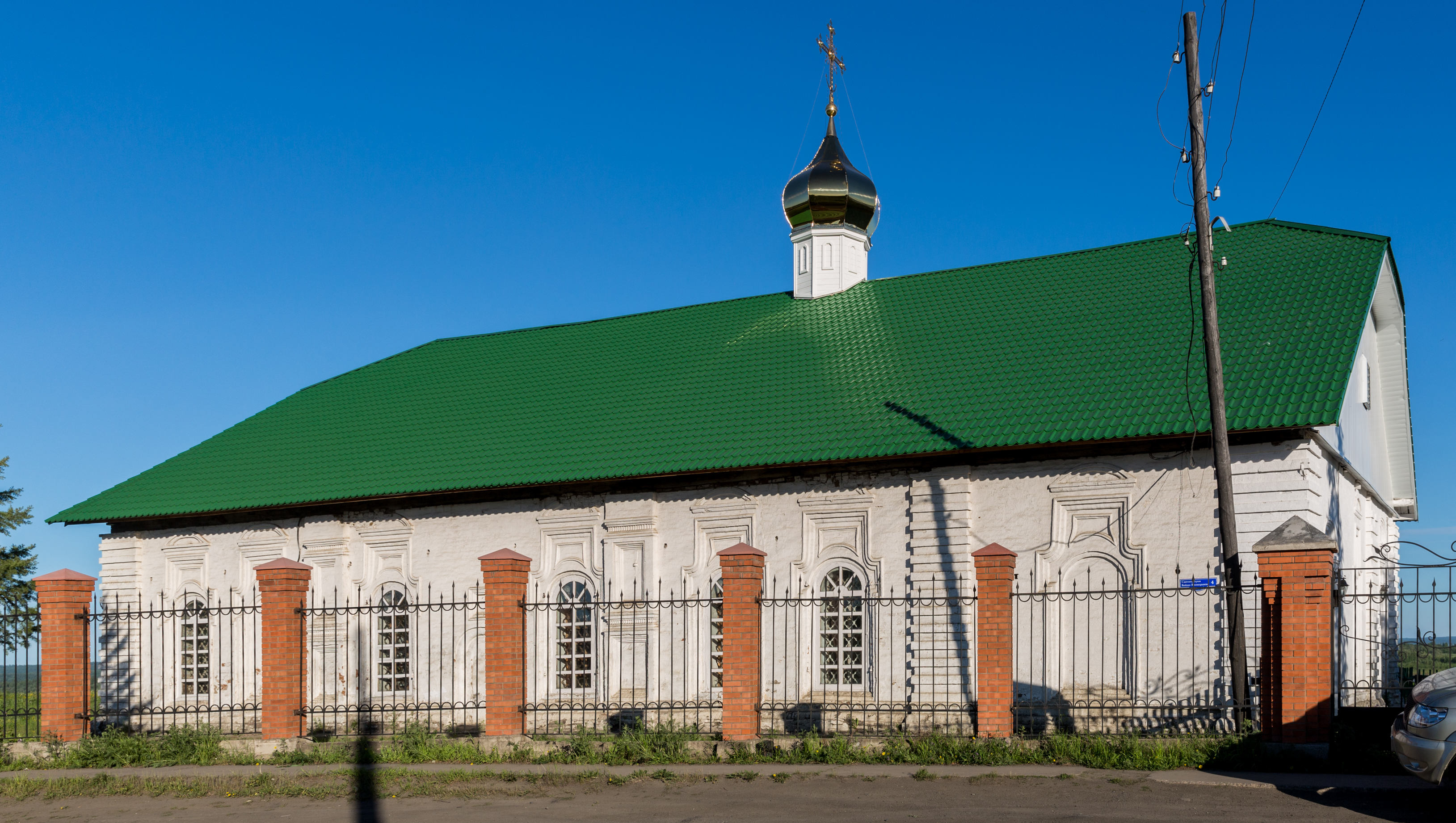 Turukhansk Orthodox Church